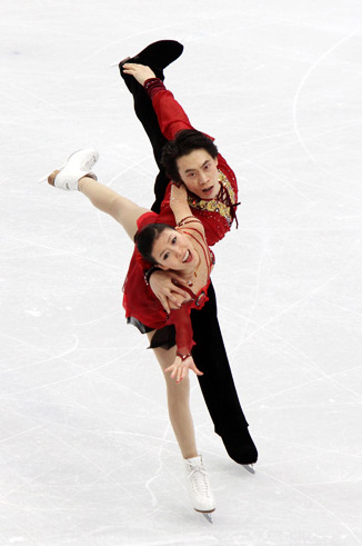 Tong Jian and Pang Qing at the 2010 Winter Olympics (FS).